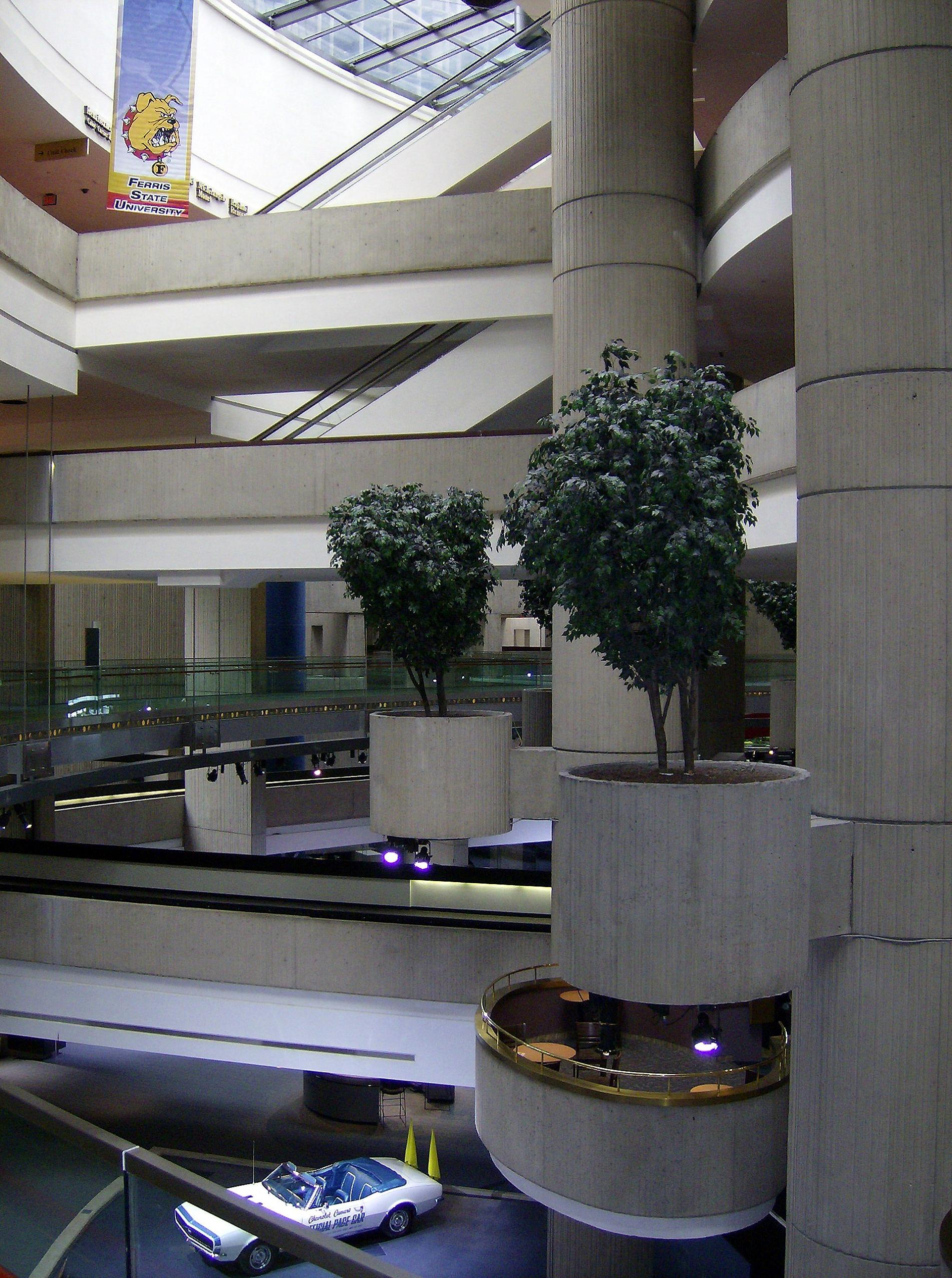 View of interior levels — Renaissance Center.